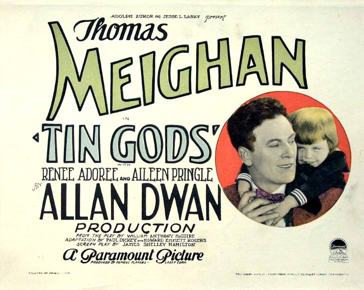 Lobby card for the American drama film Tin Gods (1926). There are no copyright marks on the card. At bottom left is Country of origin USA. At bottom right is This lobby display leased from Famous Players Lasky Corporation.